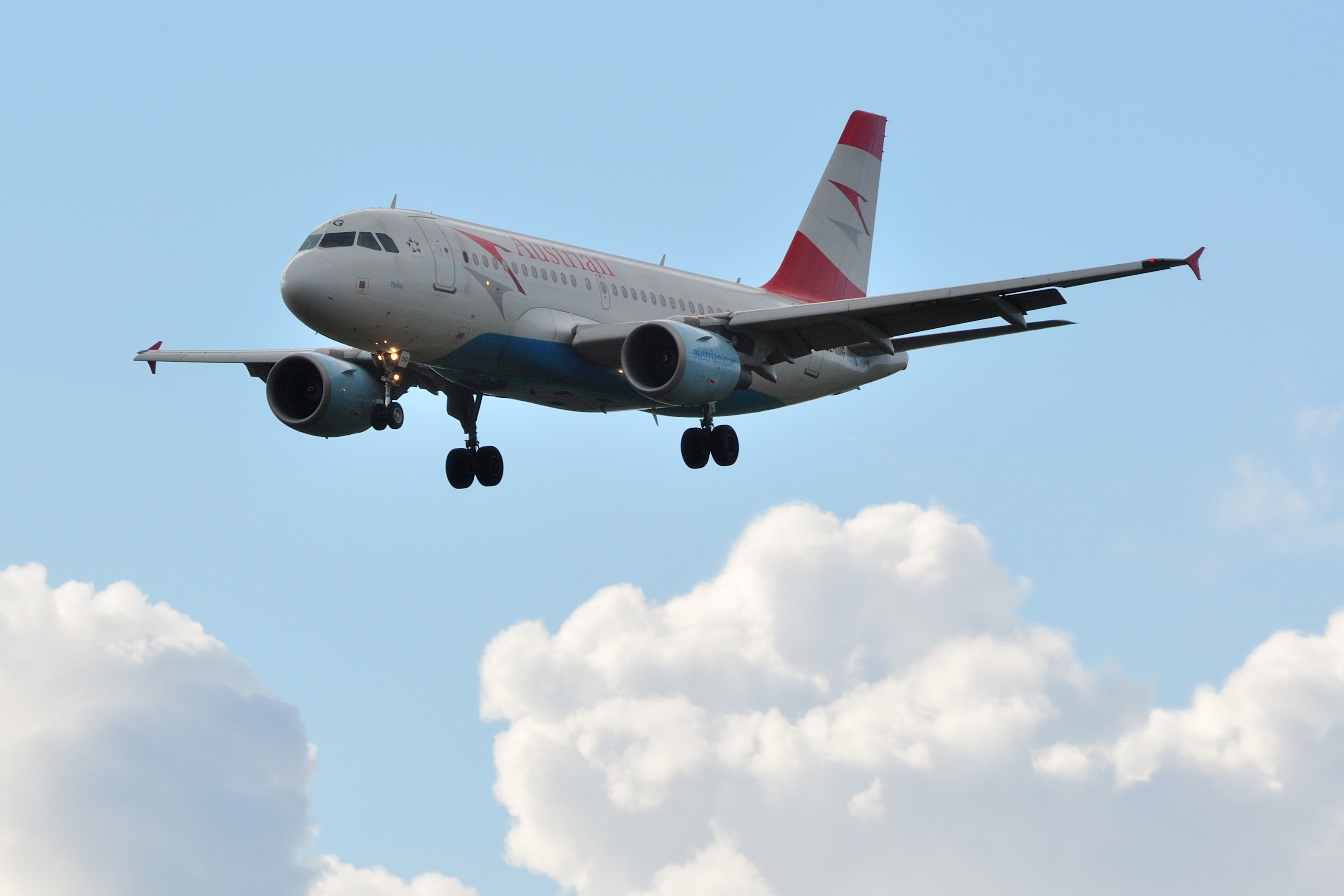 Switzerland, Canton of Zürich, spotting in the approach area of runway 14 of Zurich International Airport on a day with frequent showers.